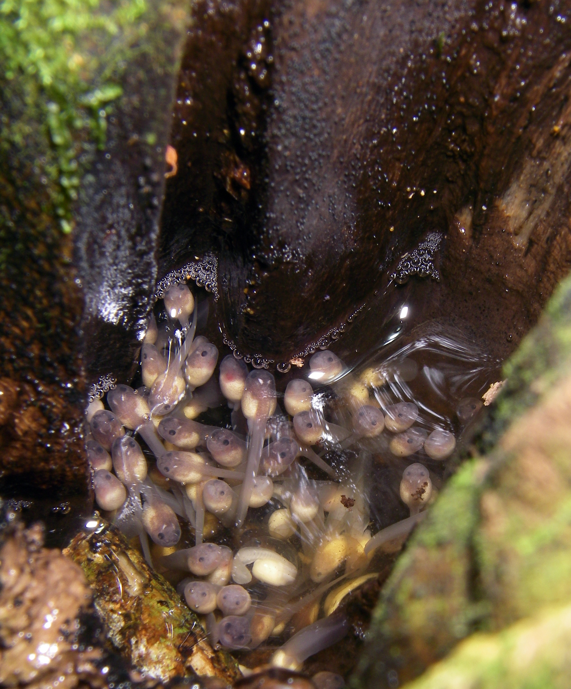 tadpoles of Plethodontohyla mihanika in a tree hole; Ranomafana National Park, Madagascar